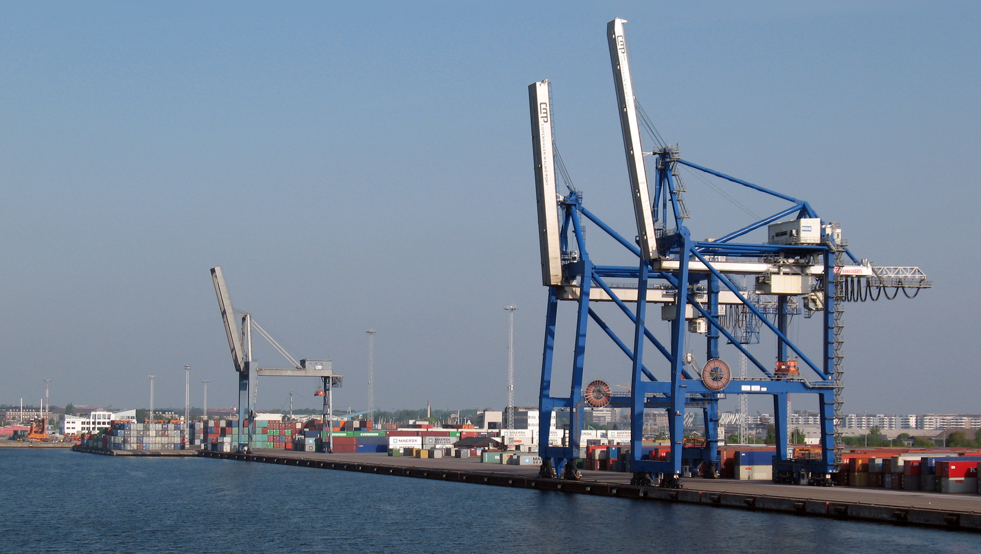 Wharf in port in Copenhagen.